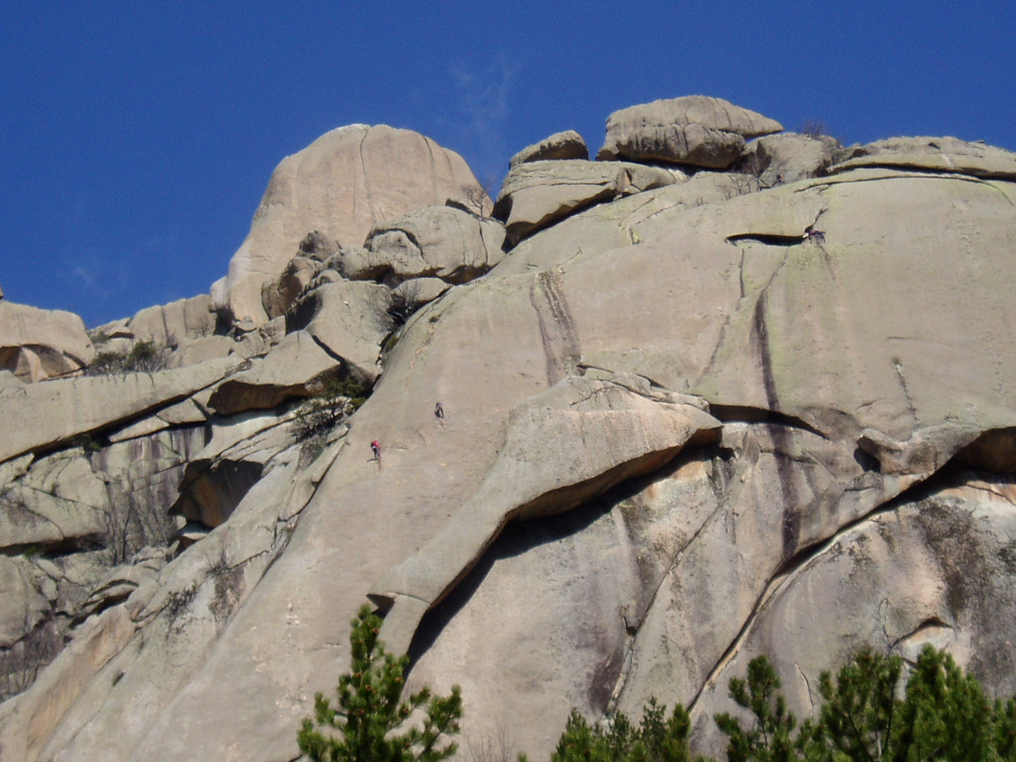 Climbers in La Pedriza, Community of Madrid.